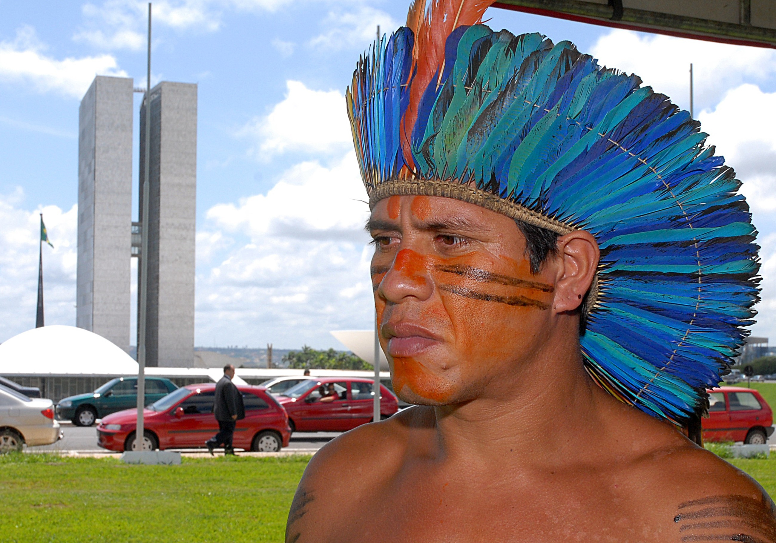 Brasília - The indigenous Chief ("cacique"), Tupinikim Jaguaretê, from the Brazilian state of Espírito Santo.